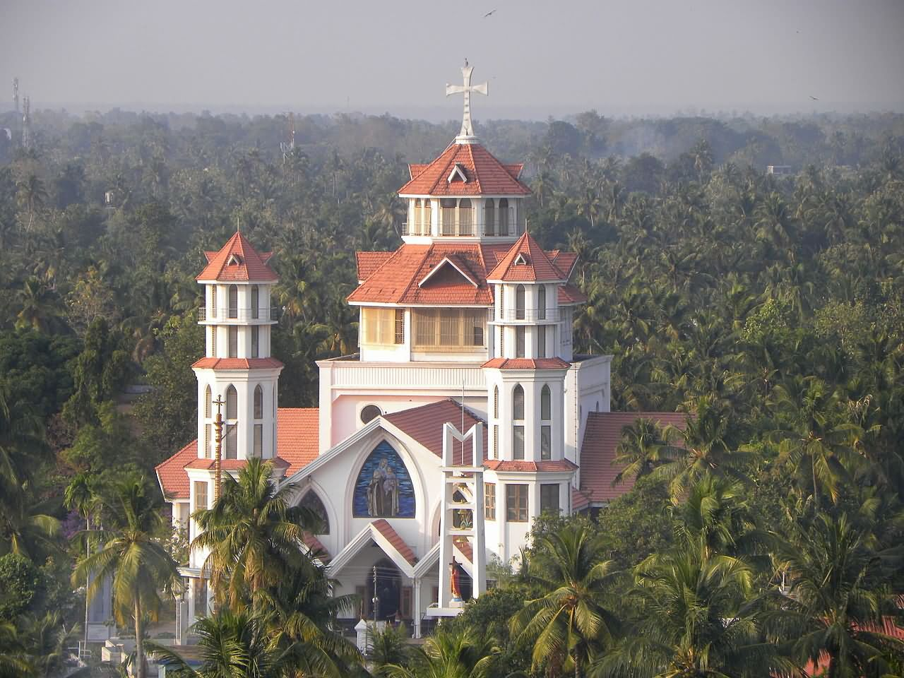 image